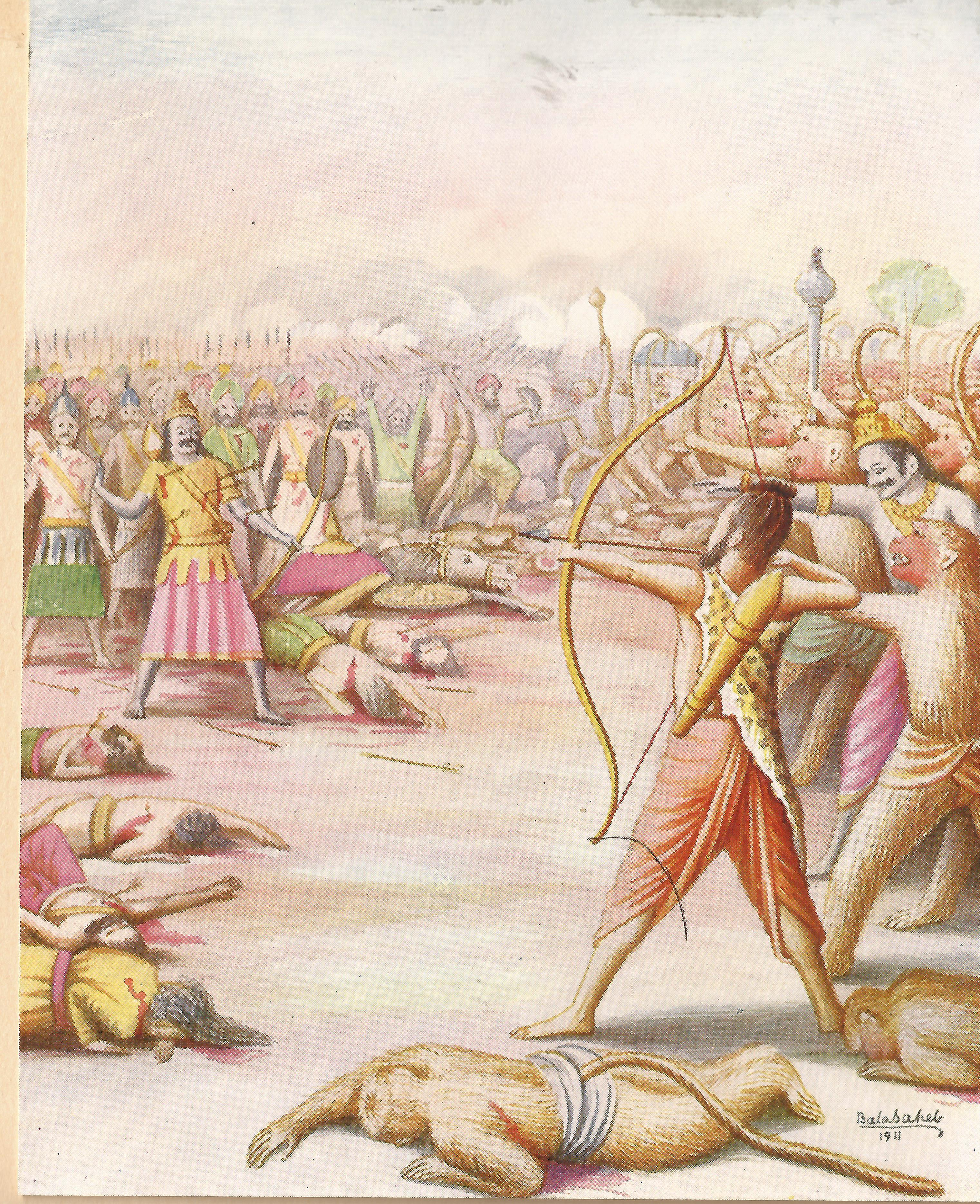 The death of Kumbhakarna disheartened Rawana. But Indrajit, his son, who had conquered Indra (overlord of gods) himself consoled him, and took oath that he will not return without killing Rama and Laxman. Big fight ensued between Indrajit and Laxman. Laxman killed the charioteer and the horses. Indrajit then got down and continued battling. Finding him tiring out, Laxman used the invincible arrow Rama had given and blew off Indrajit's head.